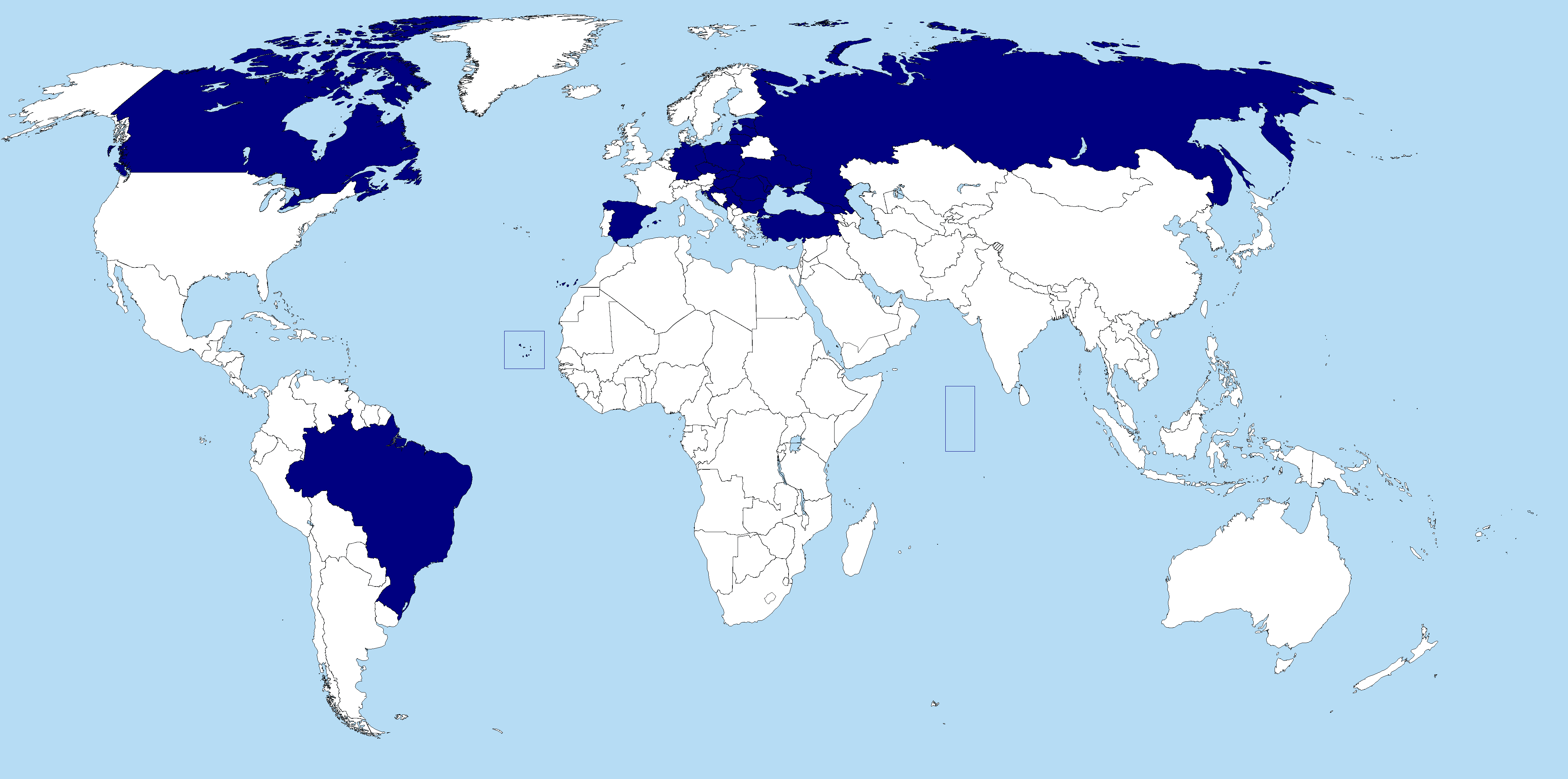 Official Mourning after 2010 Polish Air Force Tu-154 crash